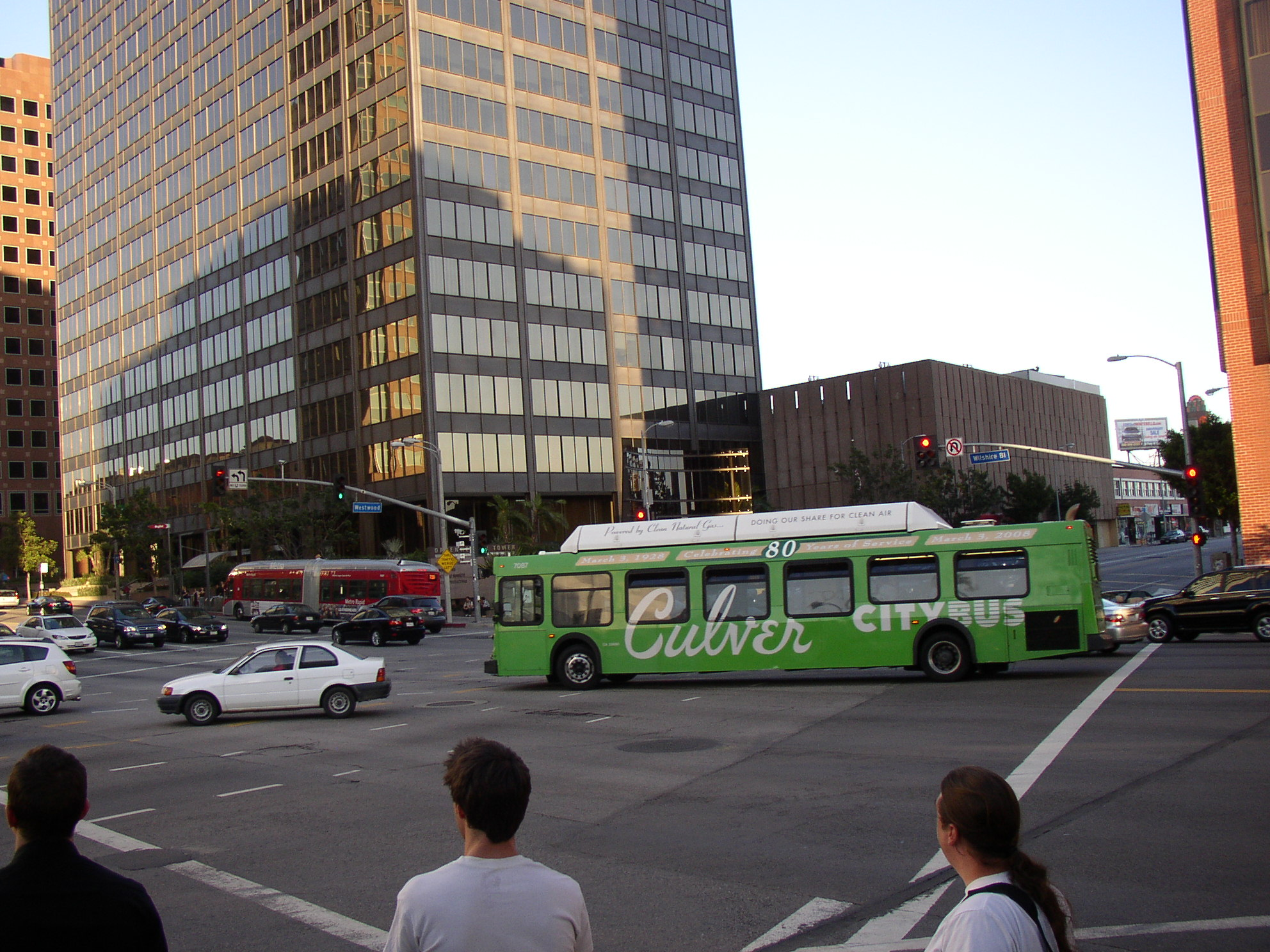 A picture of a Culver City bus taken on April 17, 2008, at the intersection of Westwood and Wilshire Boulevards in the Westwood neighborhood of Los Angeles, California.